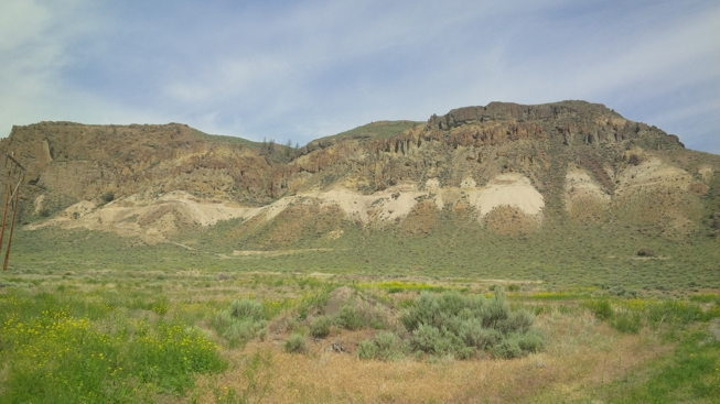 View of the rock outcrop from Provincial Highway 97 showing the McAbee Fossil beds (pale rock scree and road).